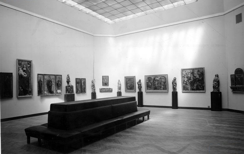 Medieval Art Gallery of the National Museum in Warsaw.